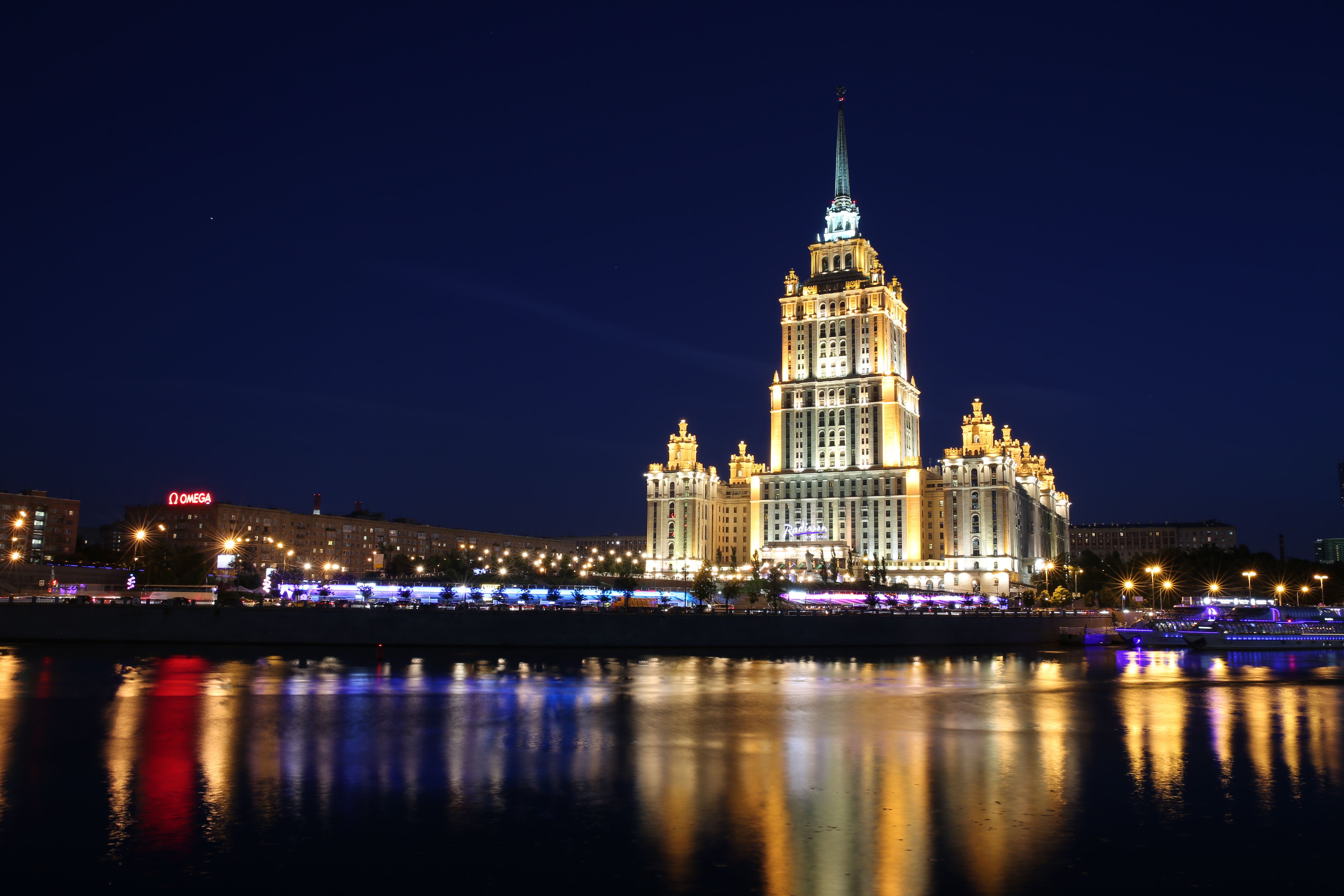 Hotel Ukraina, Moscow (Radisson Royal Moscow)